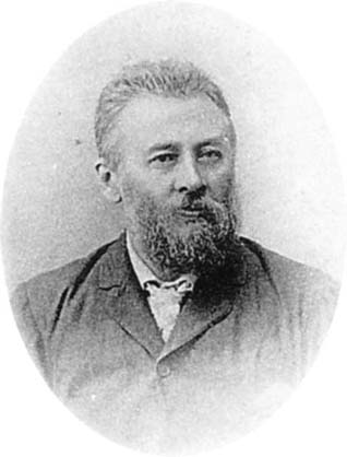 R. v. Koeber, Professor of Philosophy.